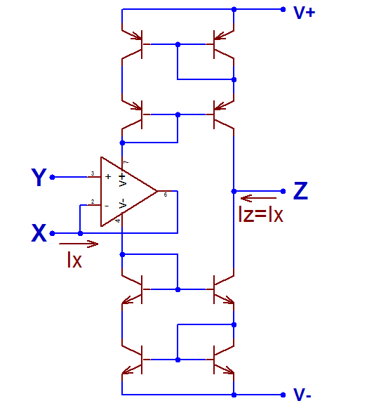 The Wilson opamp-based current conveyor (yes, THE George R. Wilson who invented the Wilson mirror. Curiously, it took him 17 years - the mirror in 67, the CC in 1984)